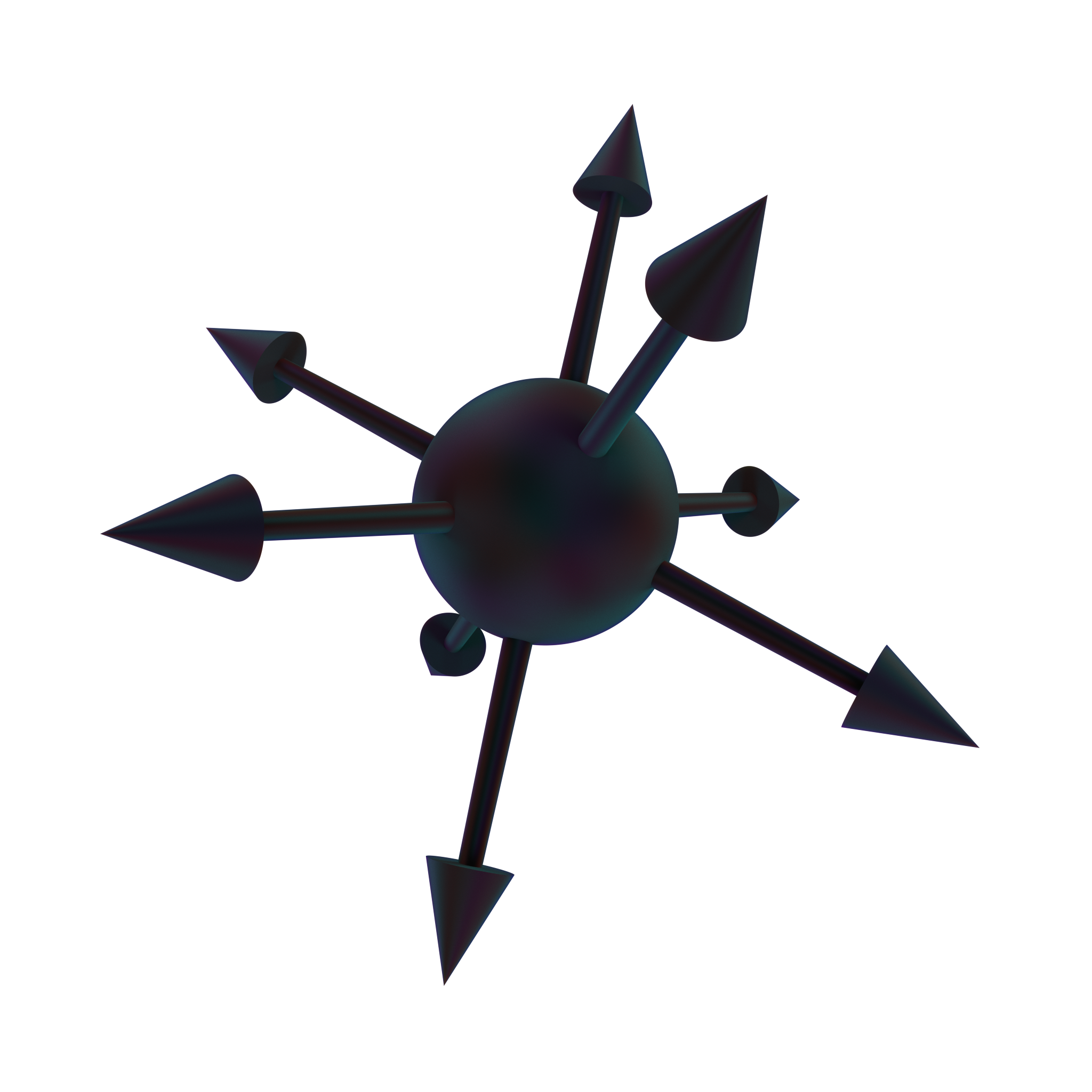 This image is a 3D render of a chaosphere made in Blender. Blend-file